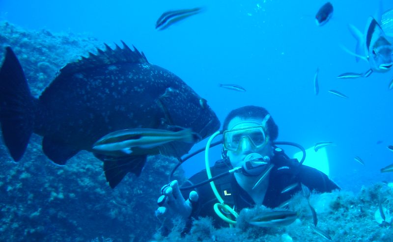 Dive at Merouville